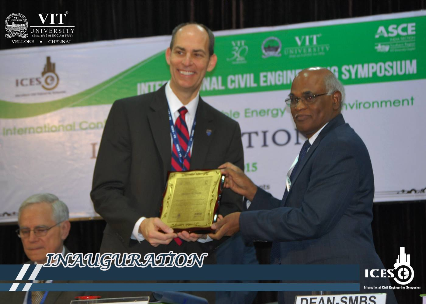 guest of honor Mr. Smith at the inauguration of ICES'15